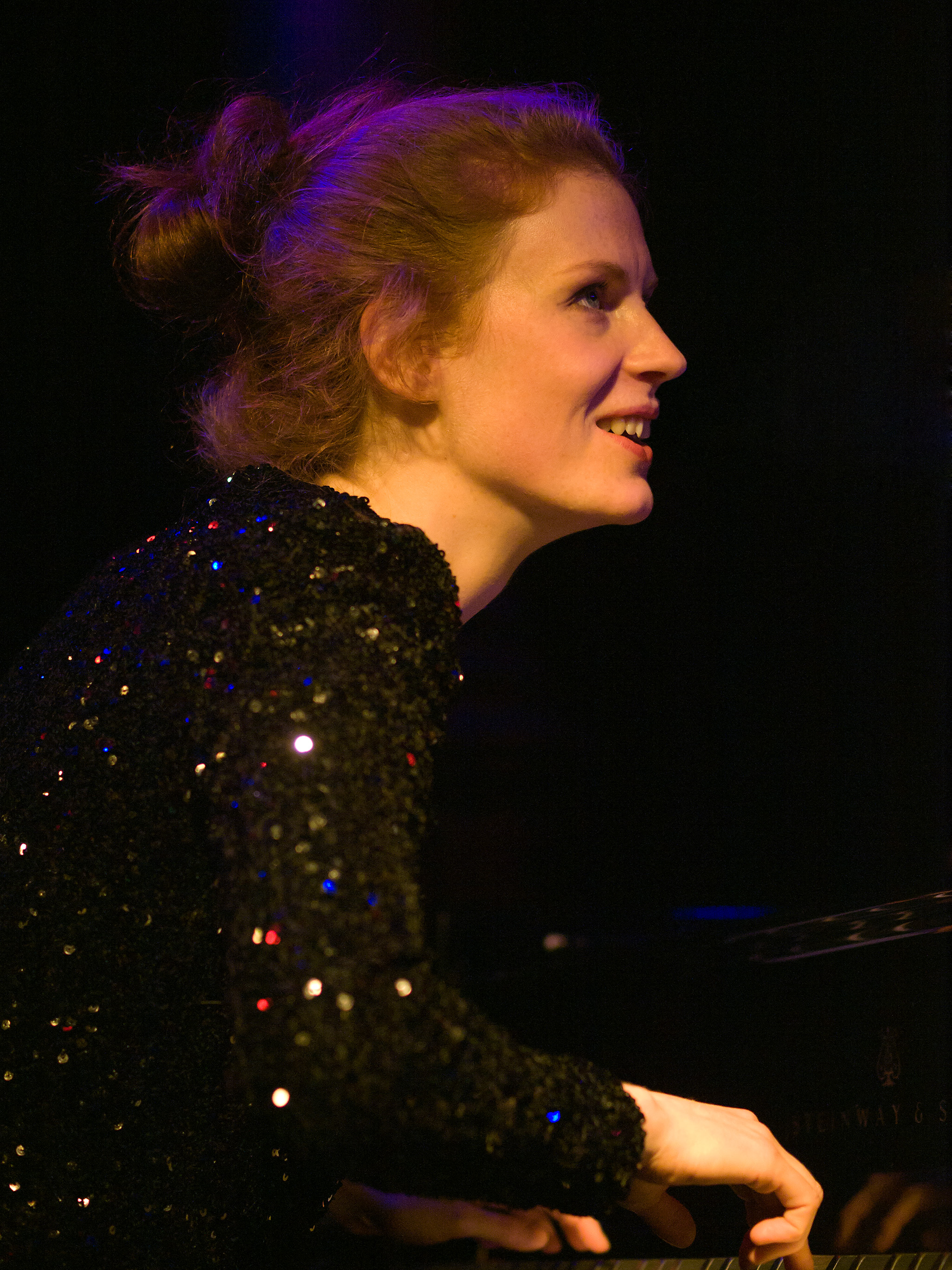 Johanna Borchert, Jazz pianist; Picture taken in Jazz Club Unterfahrt, Munich/Bavaria